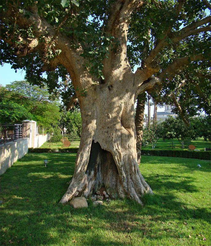 "Zacchaeus' tree" (sycamore fig tree), Jericho, Palestine.